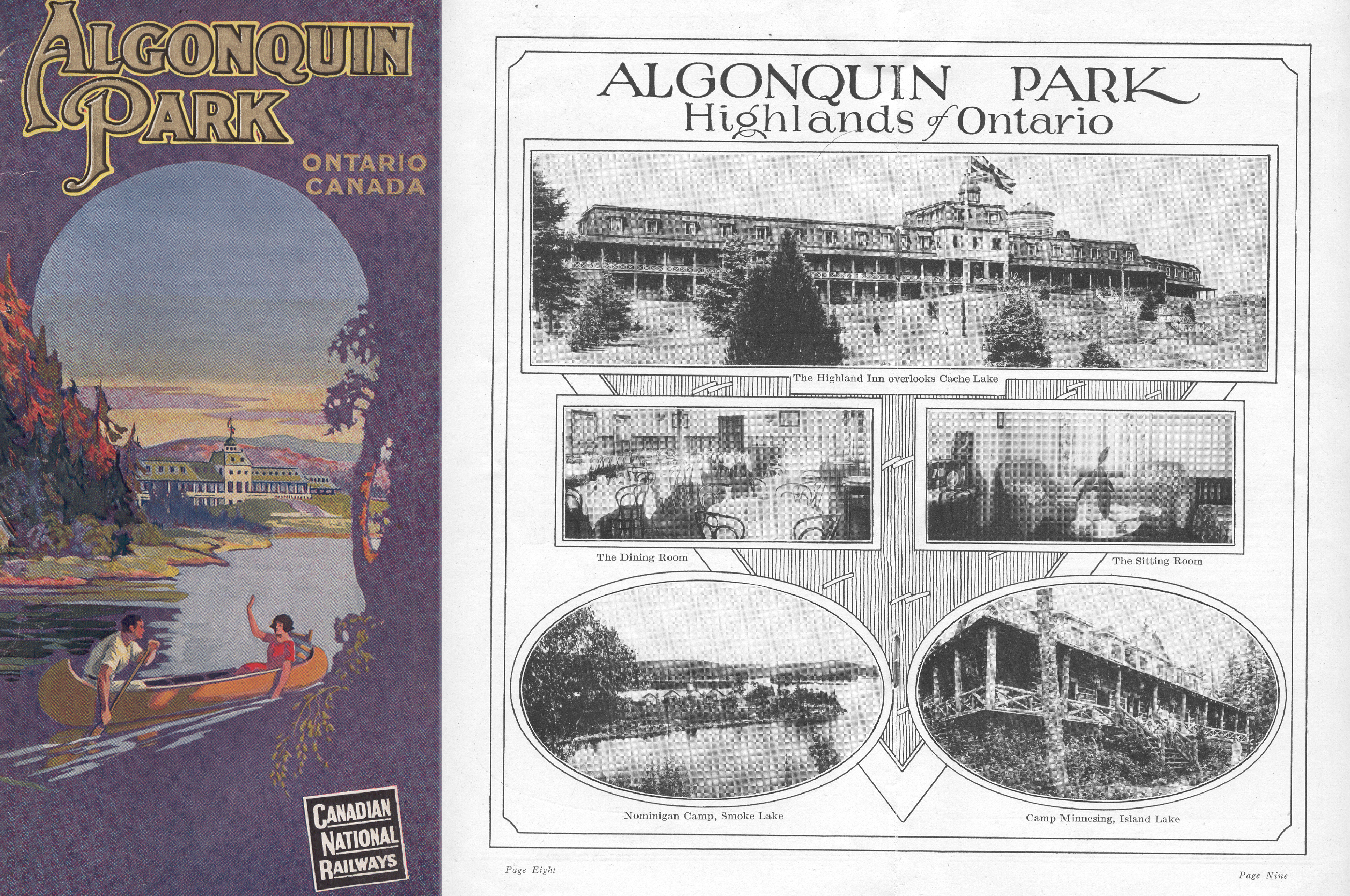 1925 CNR Algonquin Park pamphlet showing painting of Highland Inn on cover, with centerfold photographs of Highland Inn, Nominigan Camp and Camp Minnesing